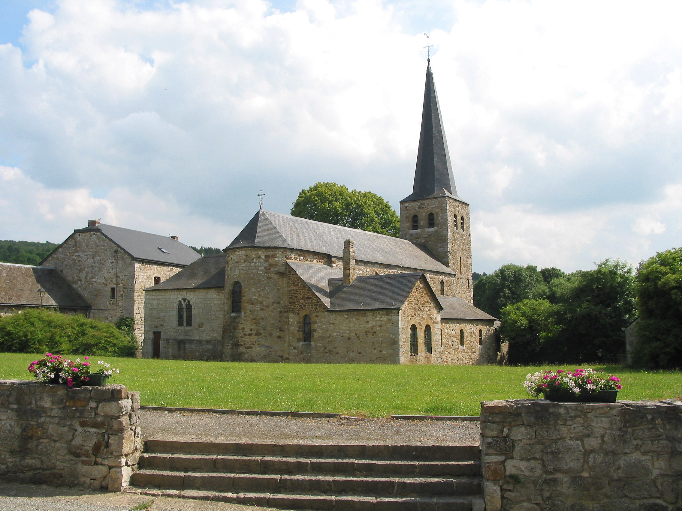 Wéris (Belgium), the church of Saint Walburge (XI/XIIth centuries).